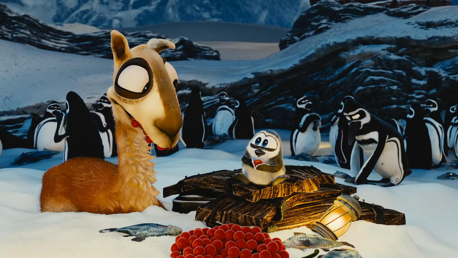 Screenshot of the free/libre Blender 3D animated short series Caminandes in the third episode Llamigos.